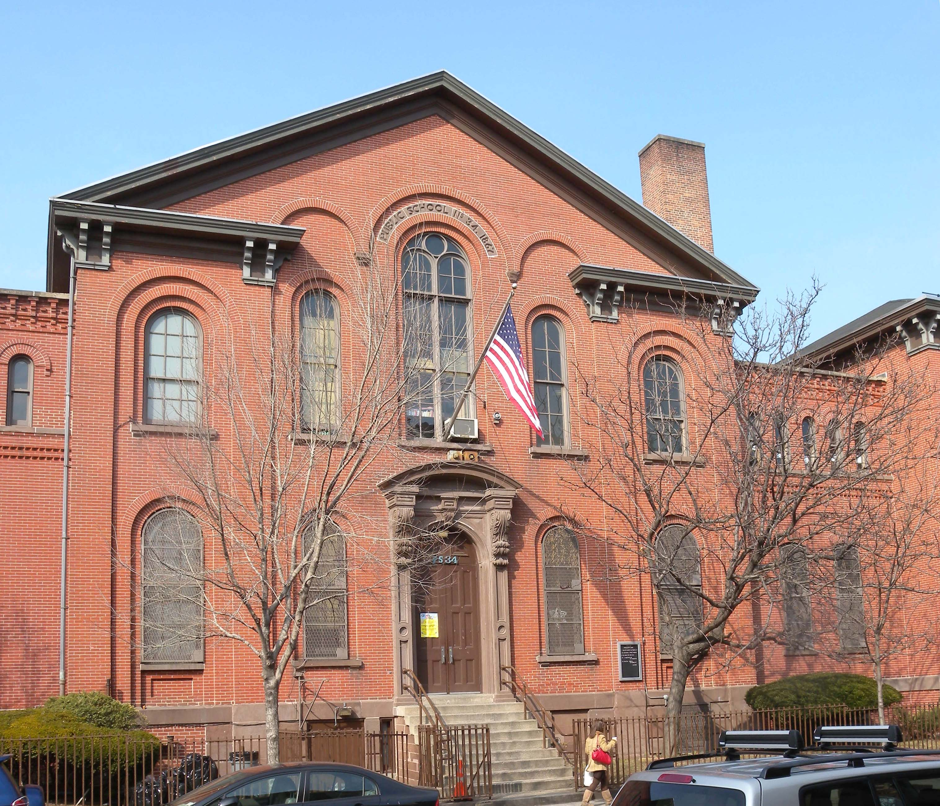 Looking north across Norman Stret at PS 34 in eastern Greenpoint on a sunny early afternoon. GPS error is 70 feet west of true position.